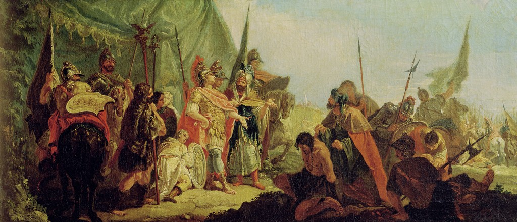 Title: Fontebasso, Francesco (1709-69) Primary creator: Italian Nationality: Musee des Pays de L'Ain, Bourg-en-Bresse, France Location: Giraudon Credit: oil on canvas Medium: defeated Porus at the Battle of Hydaspes in 326; Description: 18th (C18th) Date: Historical Events BC - 326 Categories: 36x80 cms Dimensions: Horizontal